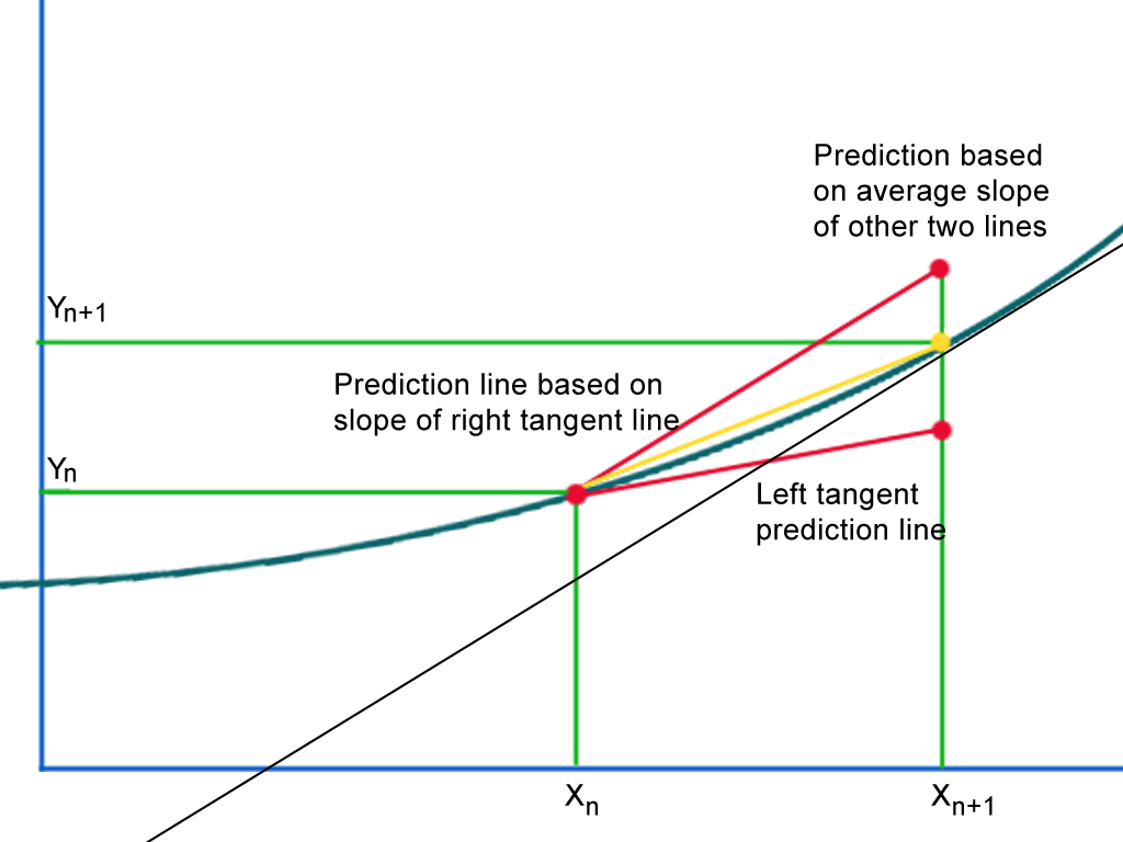 A graphic representation of Heun's Method. The point is found using the prediction based on the average slope of the two red lines.